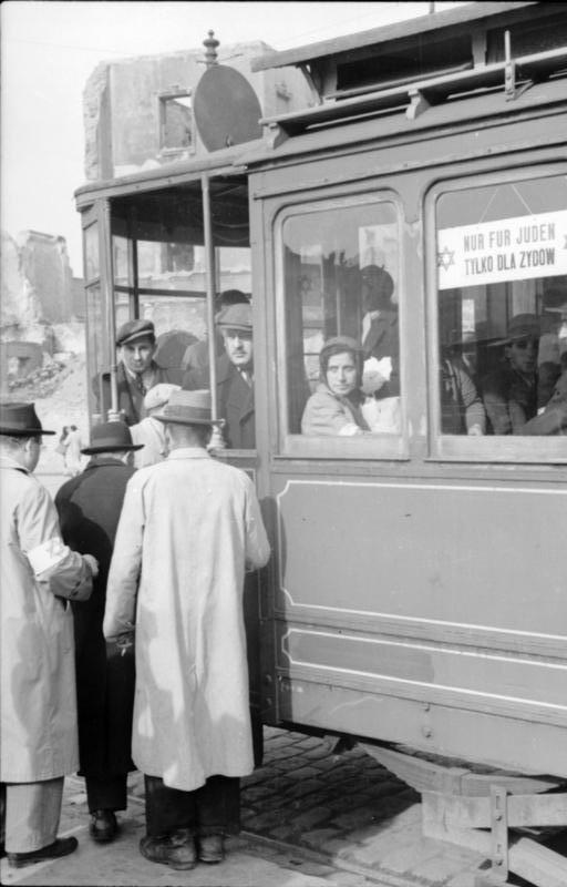 Warsaw during World War II